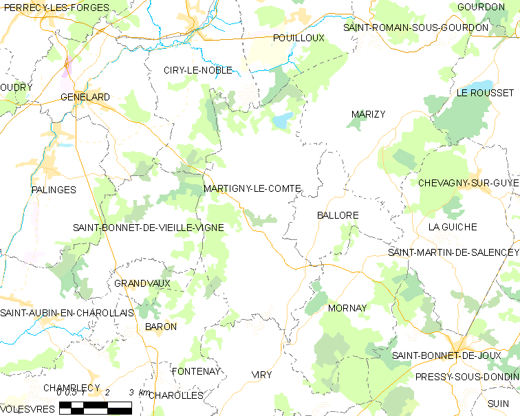 Map of French municipality